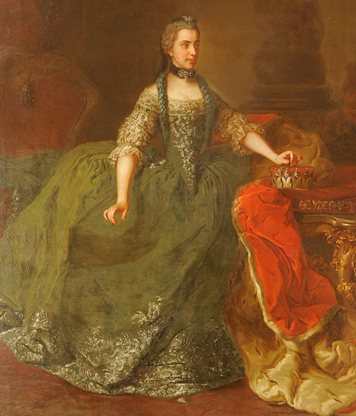 Portrait of Isabella of Parma (1741-1763)